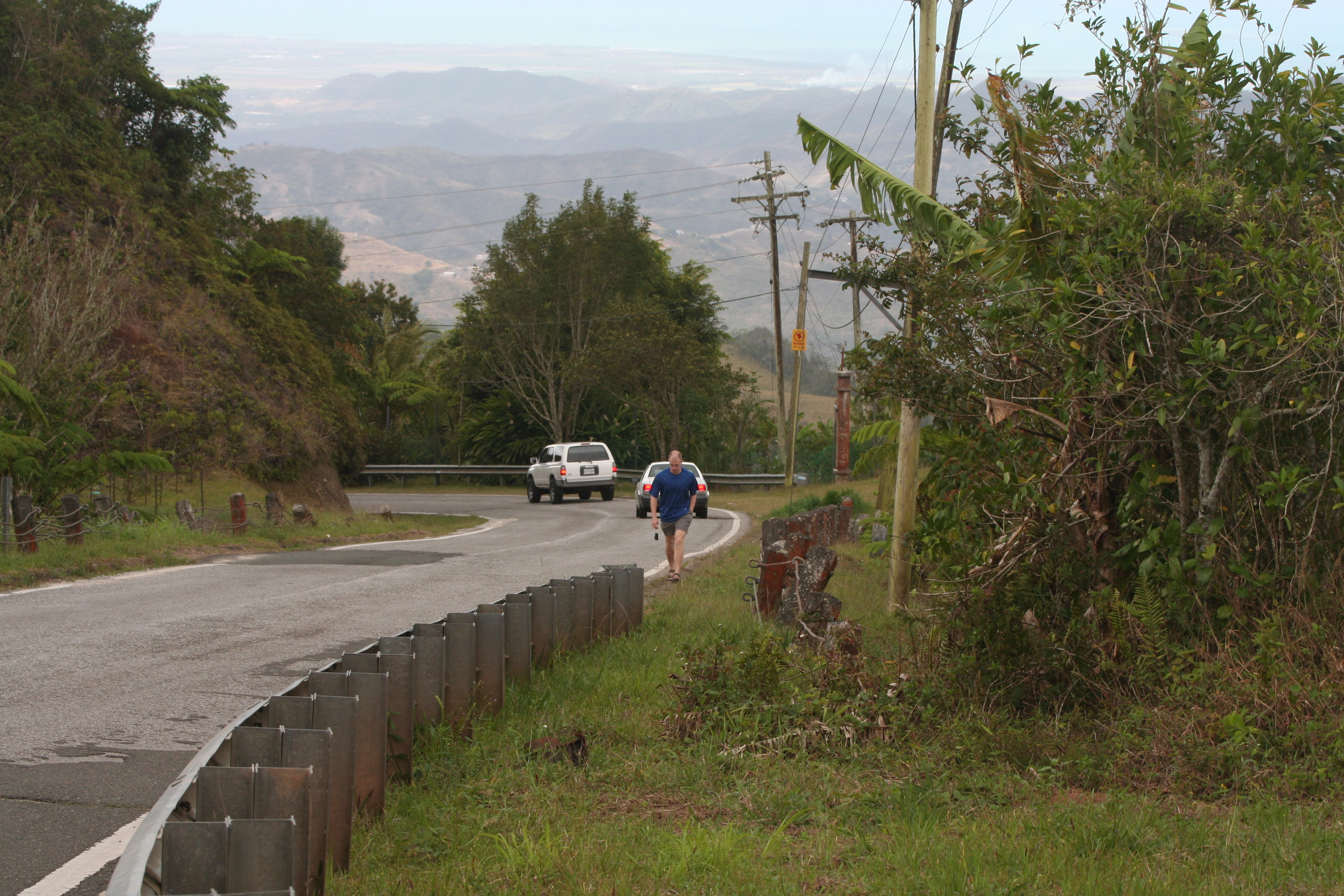 We took La Ruta Panorámica across the middle of PR to get to El Toro Negro